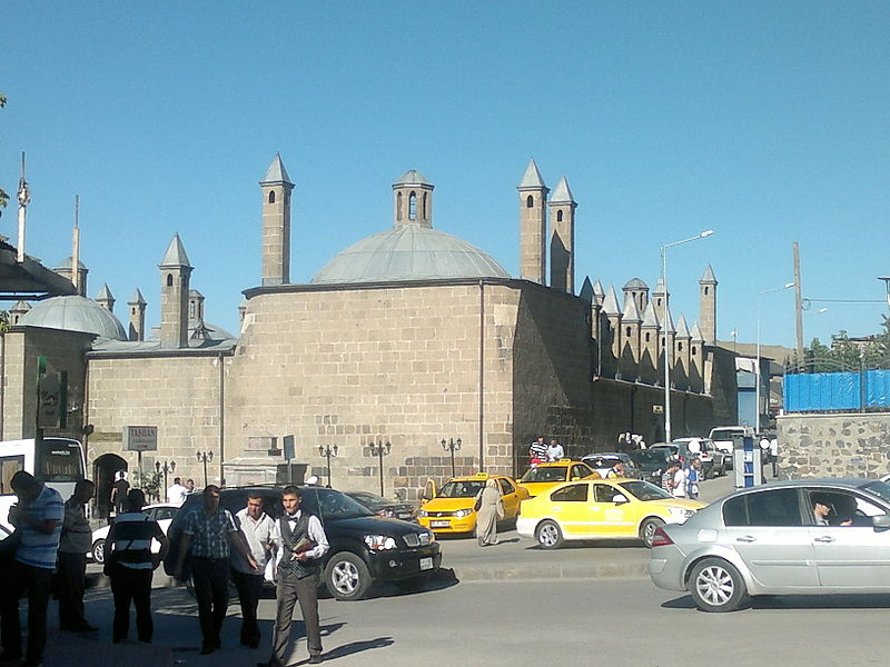 Rüstem Pasha Caravansaray in Erzurum, Turkey.